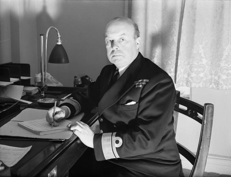 Britain's New Admiral (submarines)- Rear-admiral Claud Barry, Dso. 18 January 1943, Northways. Rear Admiral Claude B Barry, DSO, at his desk at headquarters.